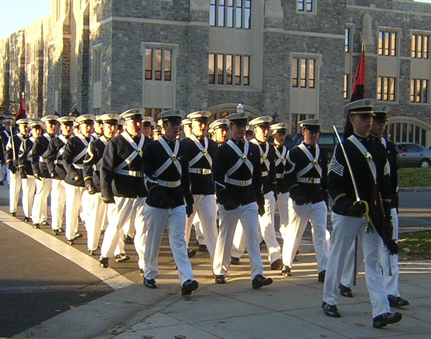 A group of cadets of the Virginia Tech Corps of Cadets marches to Lane Stadium.